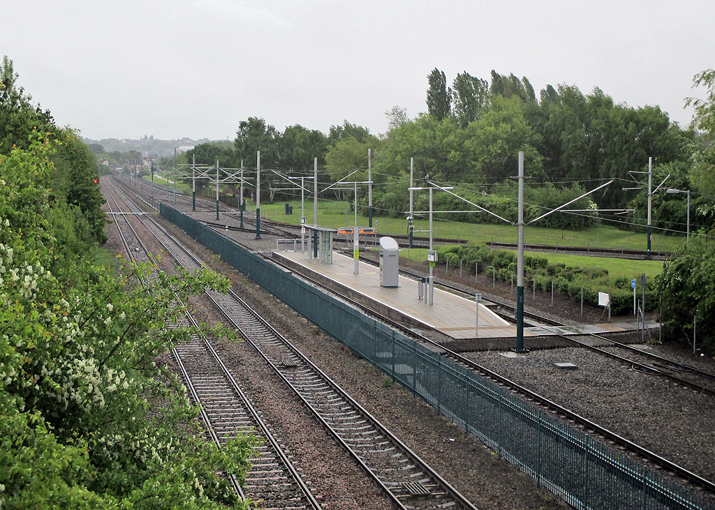 Highbury Vale: railway and tramway